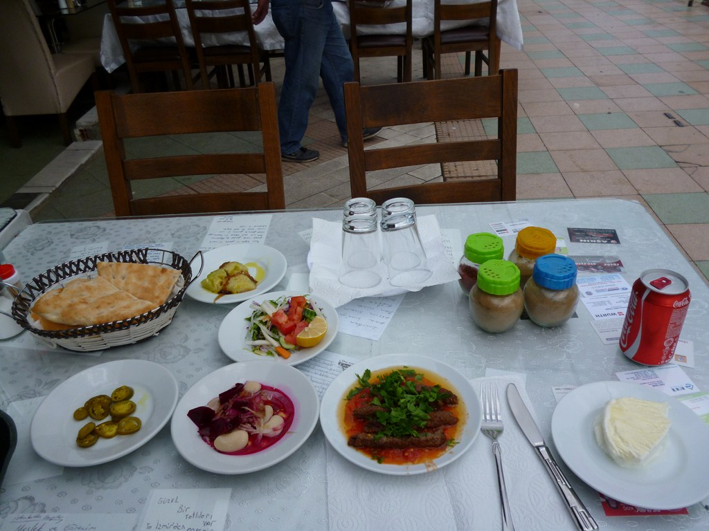 Tire Köftesi Set Menü- Tire Meatball Menu